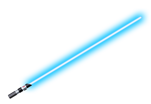 A blue lightsaber (fictional weapon).